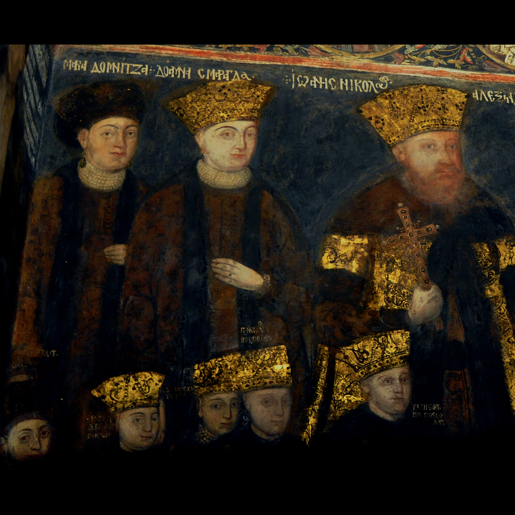 Stavropoleos Monastery, Bucharest, Romania Votive painting, vestibule [narthex, pronaos] [right to left] Nicolae Mavrocordat, Lady Smaragda, Princess Maria and the children Constantin, Iancu, Sultanita, Alexandru and Smarandita